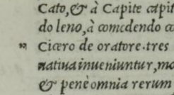 Example of Diple in printed text in Prisciani grammatici Caesariensis Libri omnes (1527) published by Aldus Manutius